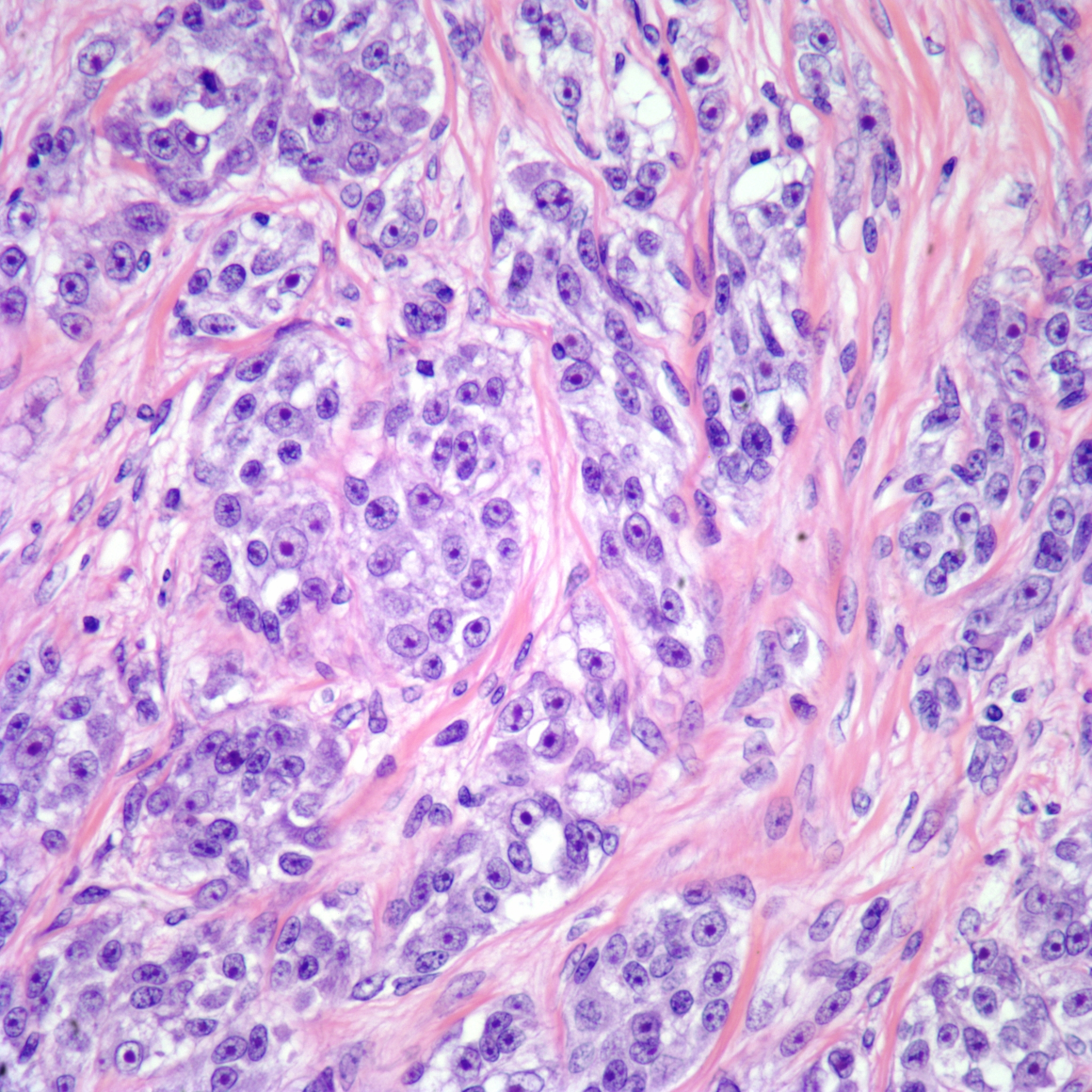 Micrograph of clear cell sarcoma. The tumor cells have prominent nucleoli and clear cytoplasm. They are arranged in well-defined nests surrounded by dense fibrous stroma.